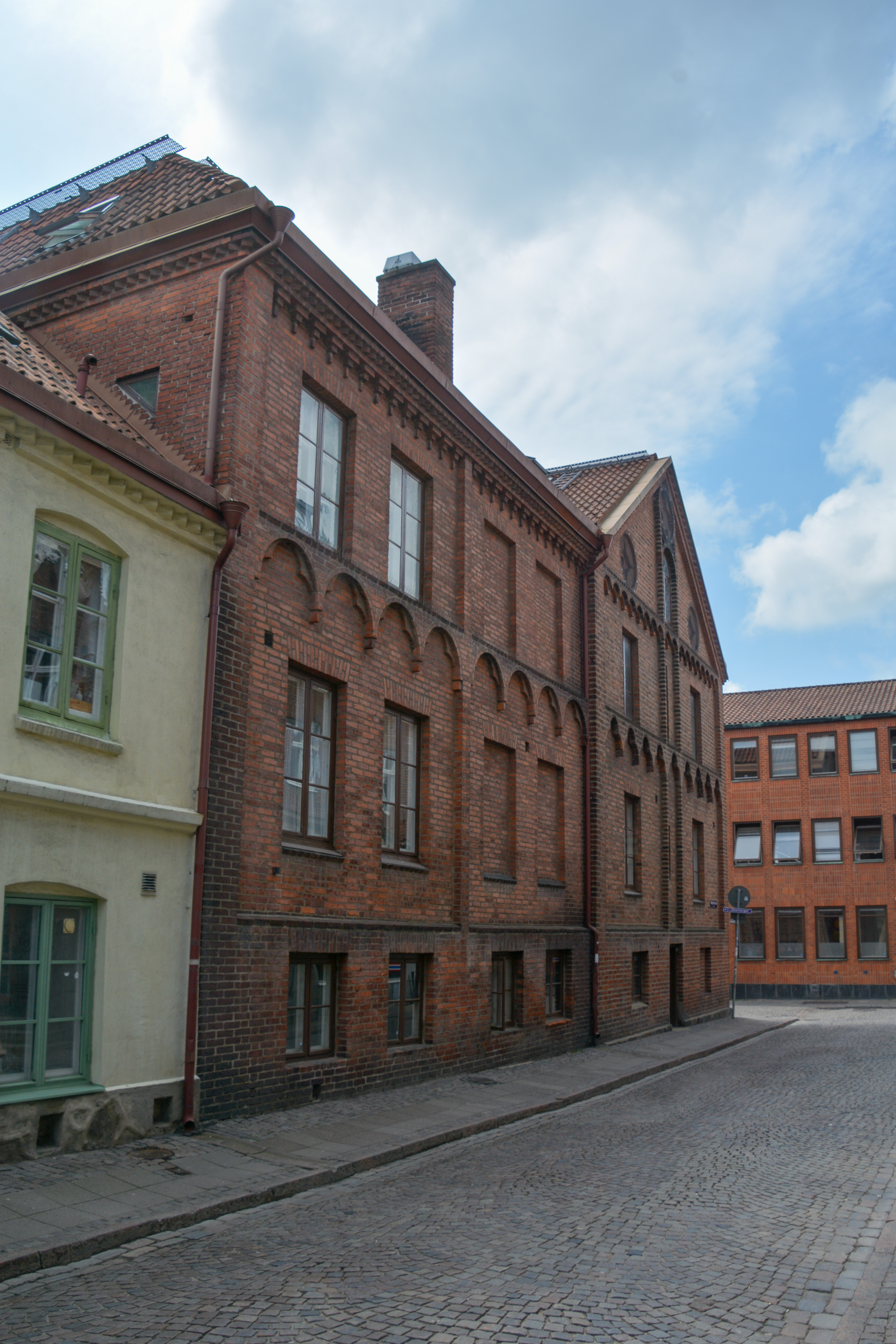 Brunius house in Lund, part of building at Magle Lilla Kyrkogata